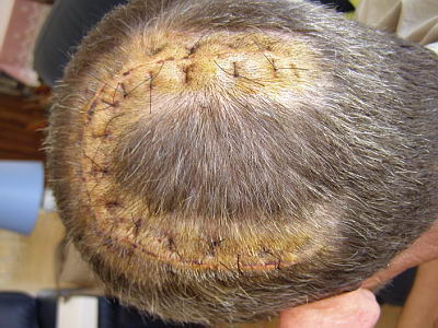 Trepanation for meningioma